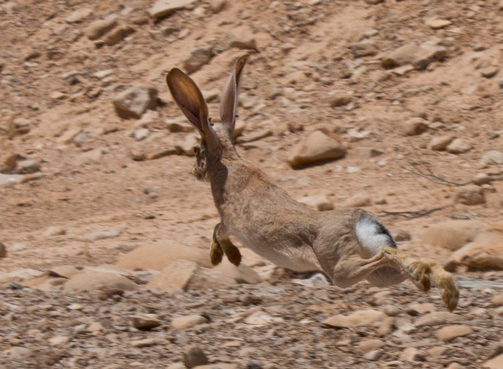 Cape hare (Lepus capensis sinaiticus) Fleeing. Ezuz, Israel.